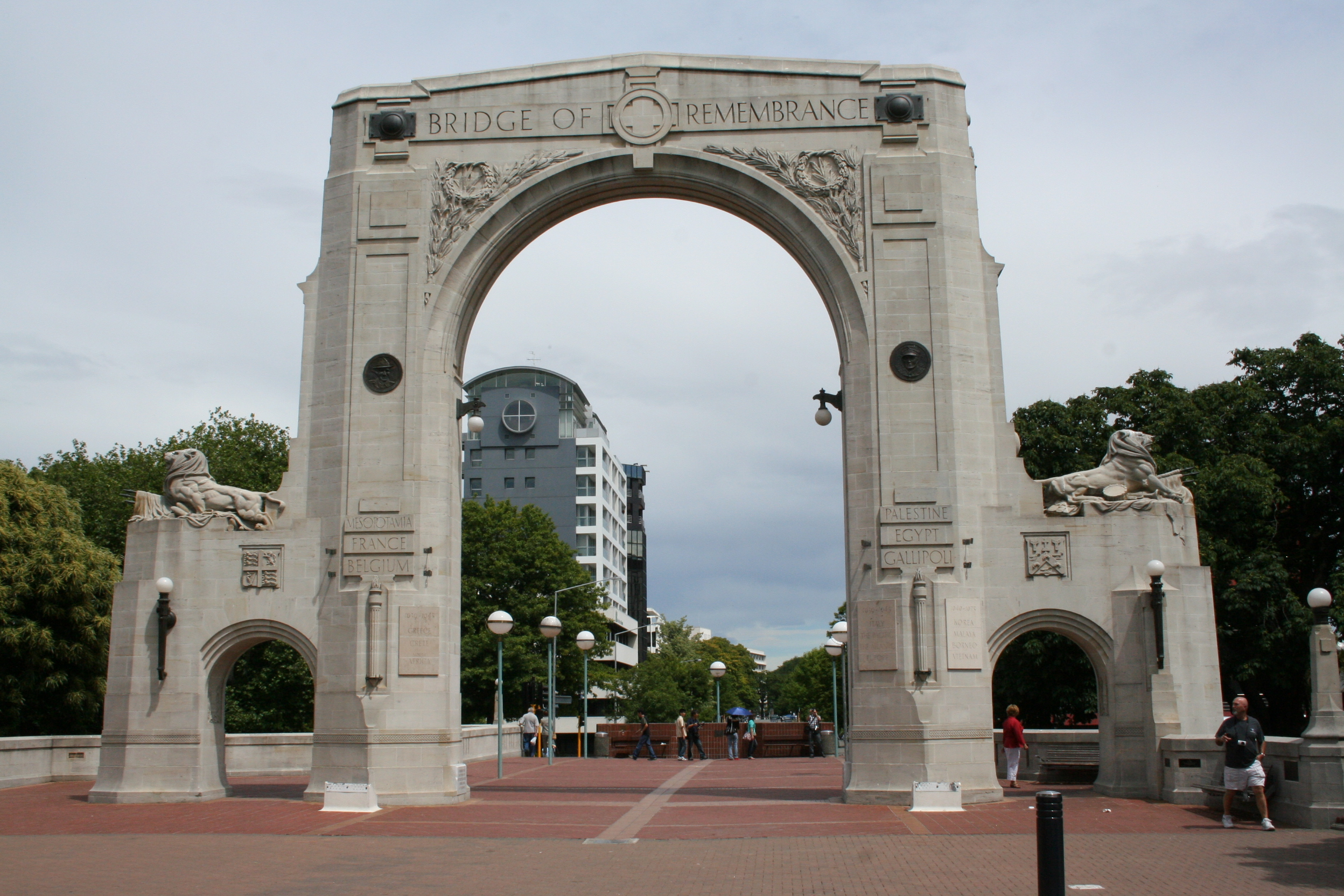 Memorial "Bridge of Rememberence", Christchurch, New Zealand